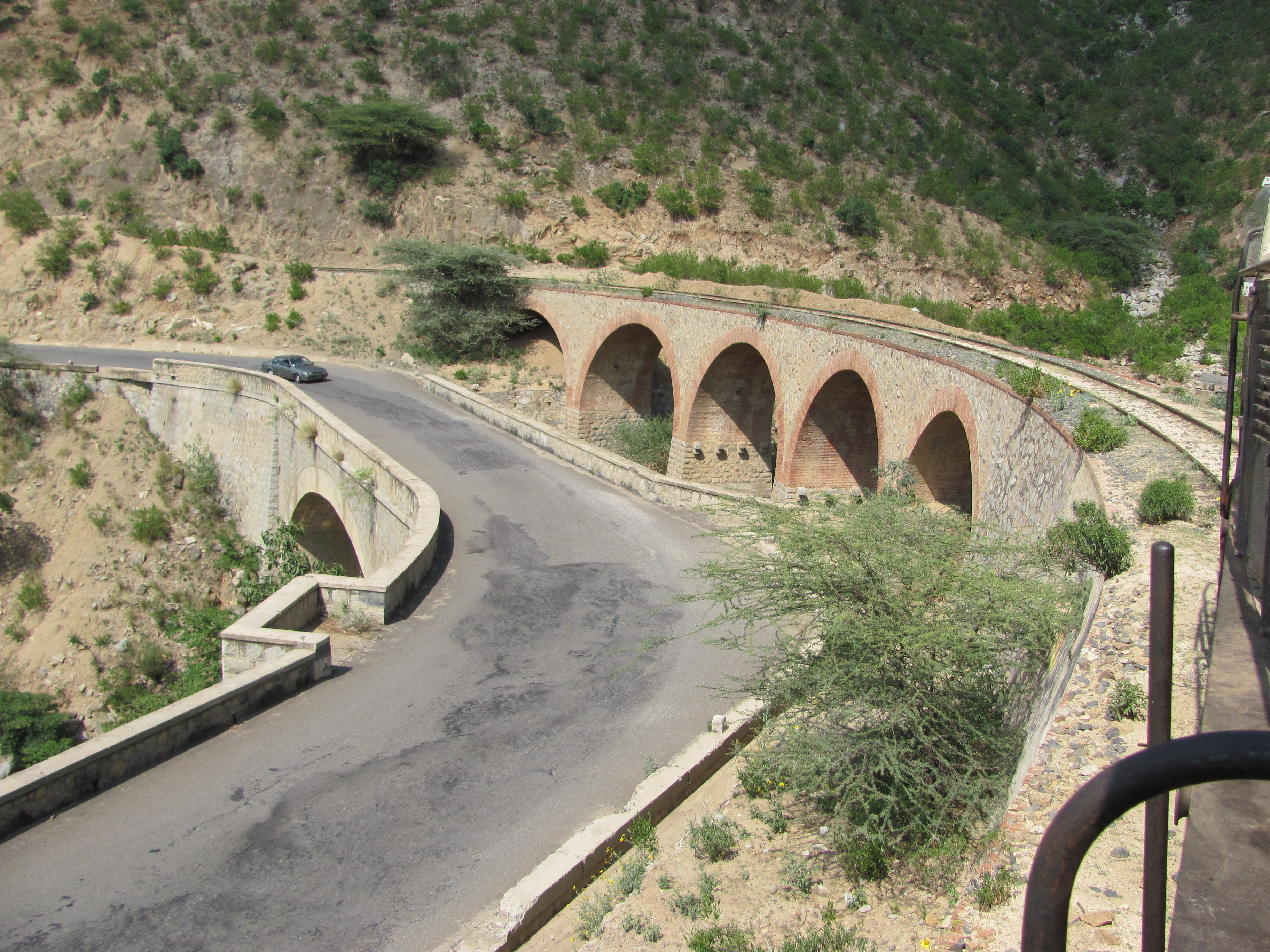 Rly line Massawa-Asmara between Ghinda and Ebatkala